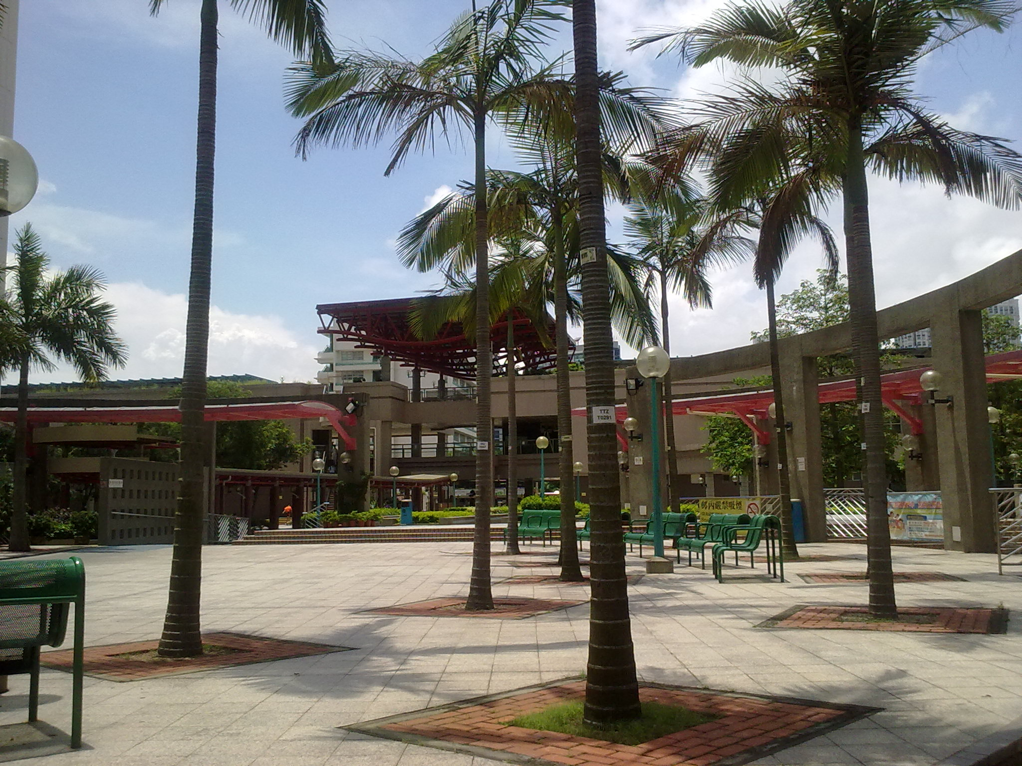 Tin Tsz Shopping Centre (July 2011)